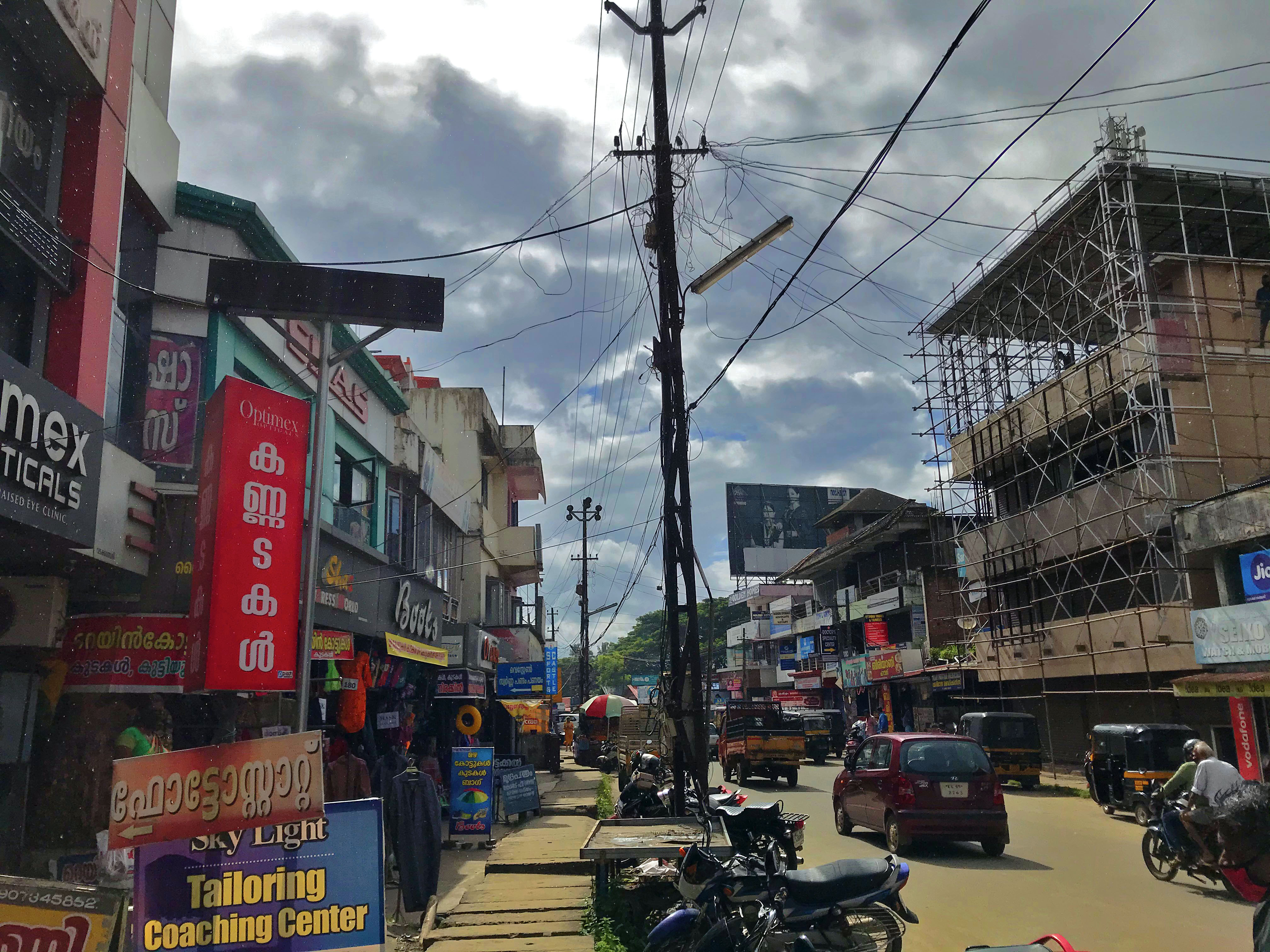 Vadakkencherry is one of the fast developing town in Palakkad District